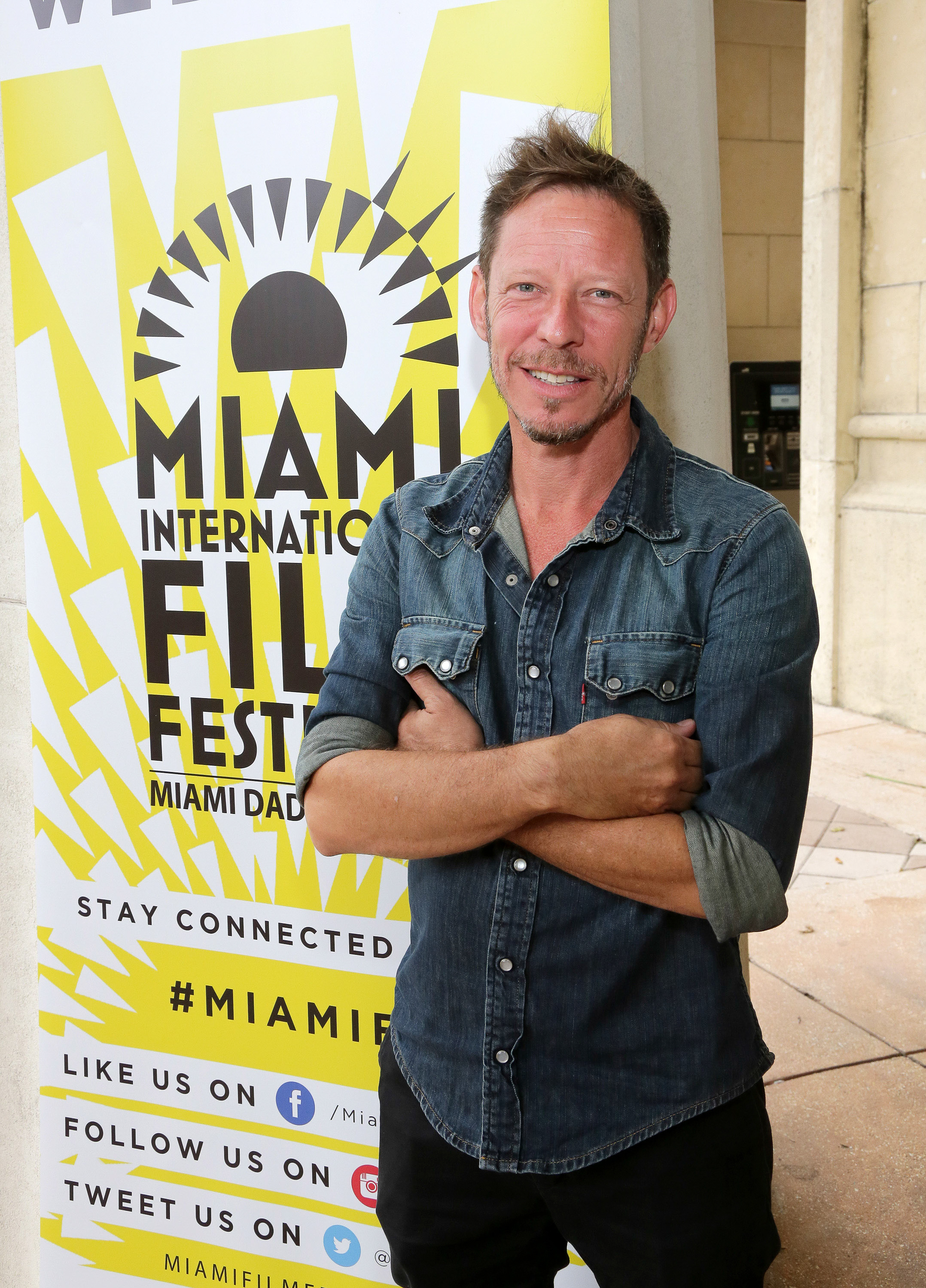 Director Ariel Rotter at the 2016 Miami International Film Festival showing of INCIDENT LIGHT (LA LUZ INCIDENTE) Photo: Alberto Tamargo